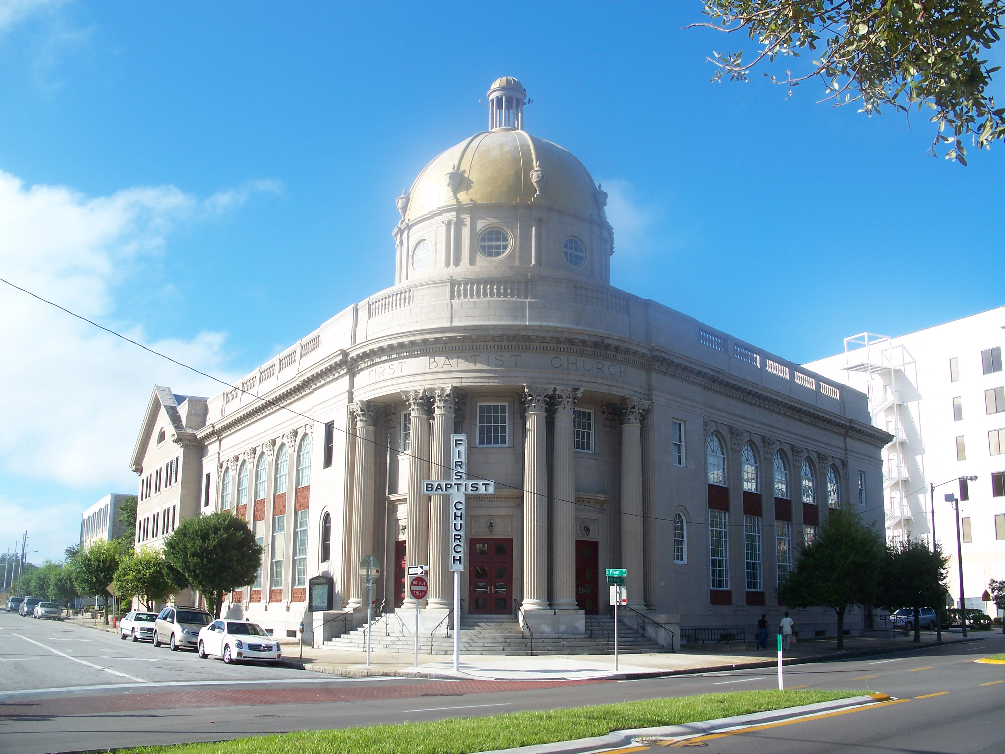 First Baptist Church of Tampa on Kennedy Boulevard, in Tampa, Florida